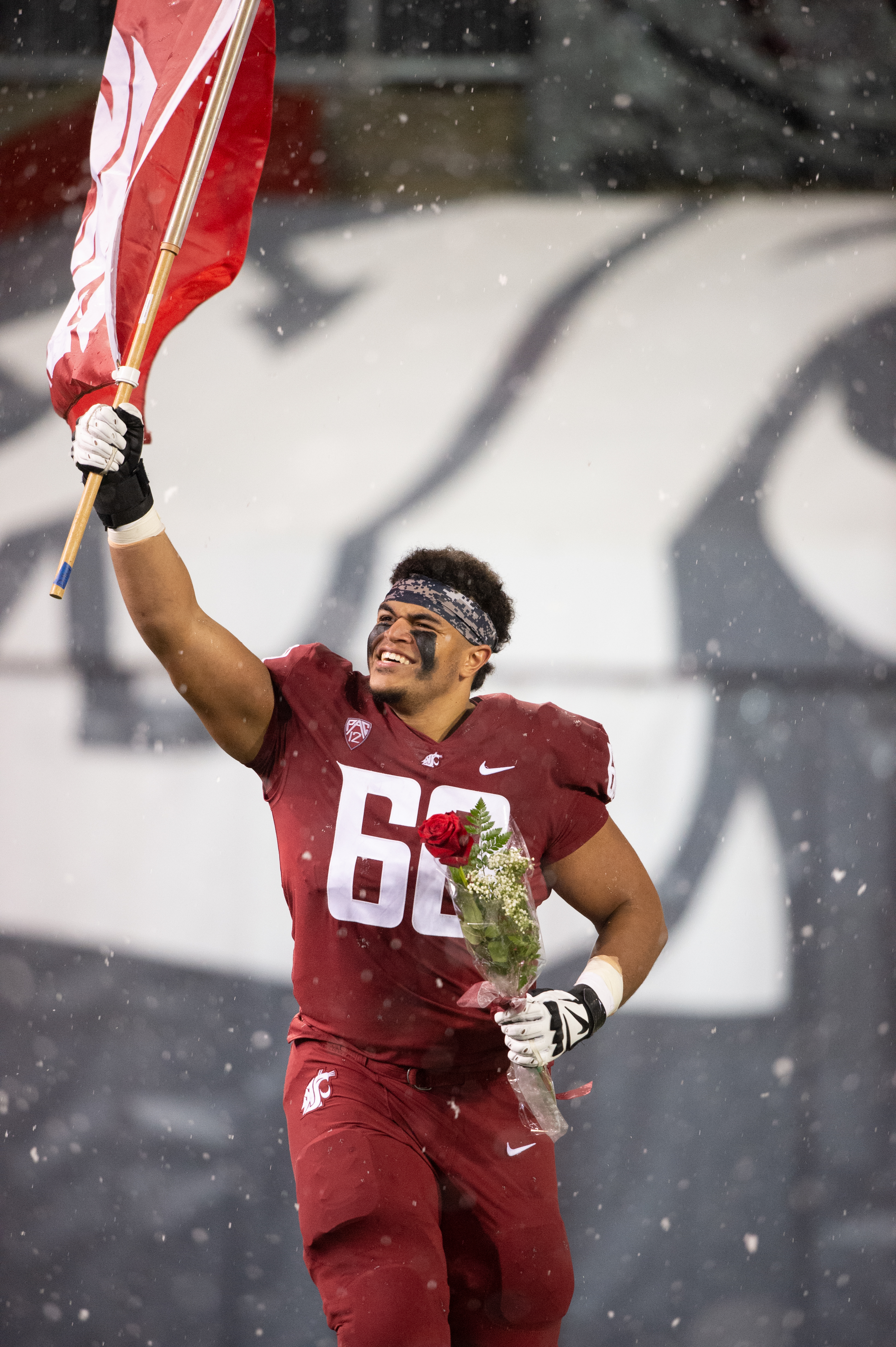 Andre Dillard on Senior Night at the 2018 Apple Cup, Martin Stadium, Pullman, Washington